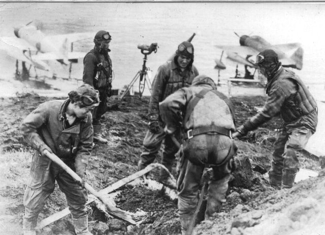 Japanese fighter pilots. At the plane anchorage in the background can bee seen two Nakajima A6M2-N Type 2 Fighter Model 11 sea-planes. These float plane versions of the "Zero" fighter had the allied reporting name "Rufe".